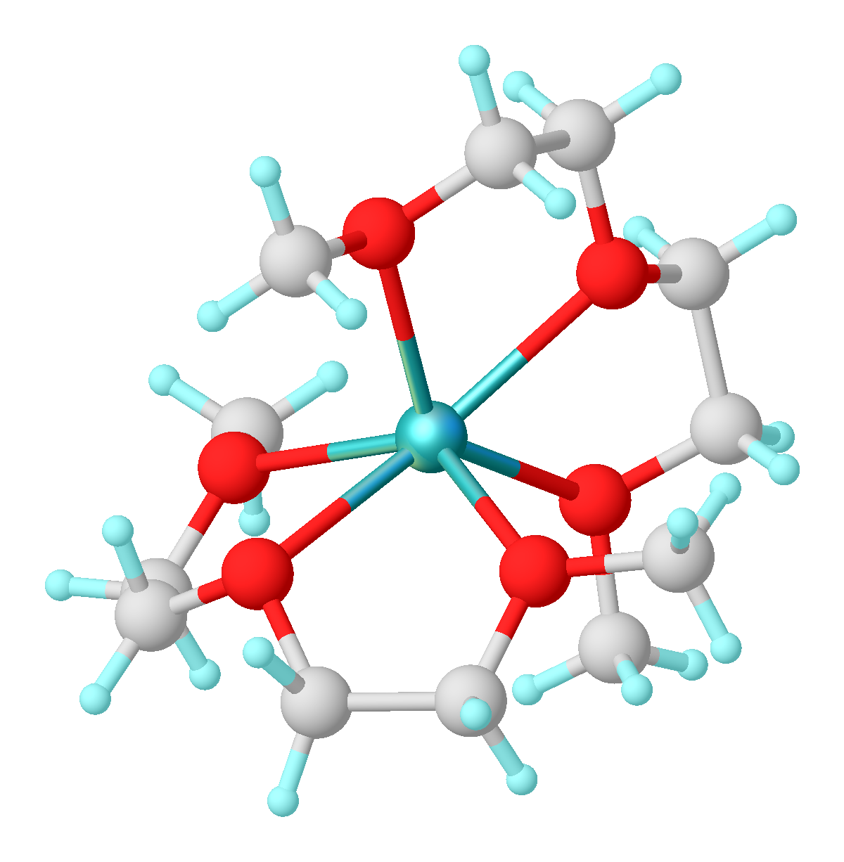 [Na(diglyme)2]+